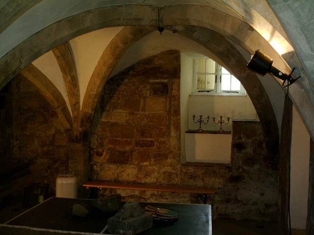 The crypt This is the remains of the crypt from the old Priory Church - fell down 1750AD. It is now under an adjacent house and the owners kindly open it from time to time to visitors